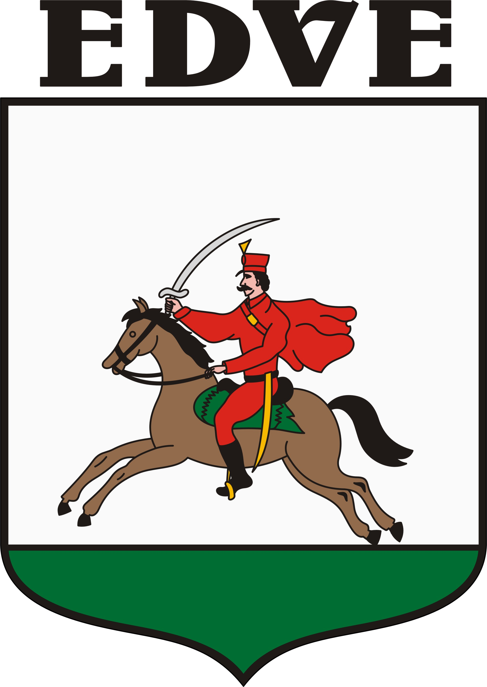 Coat of arms of Edve, Hungary